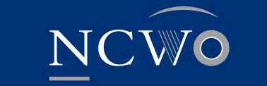 The Logo for the National Childrens' Wind Orchestra of Great Britain